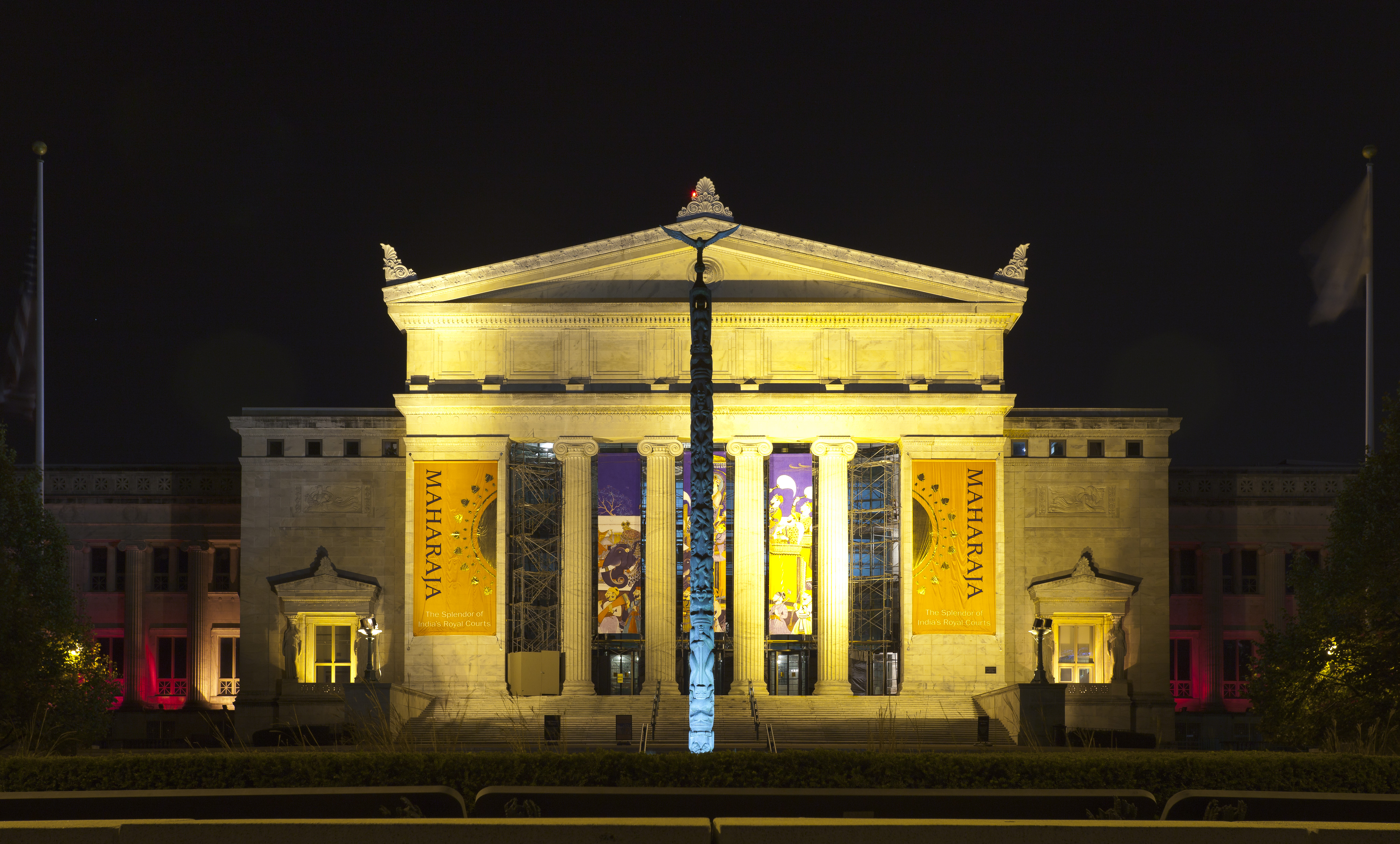 Field Museum, Chicago, Illinois, USA